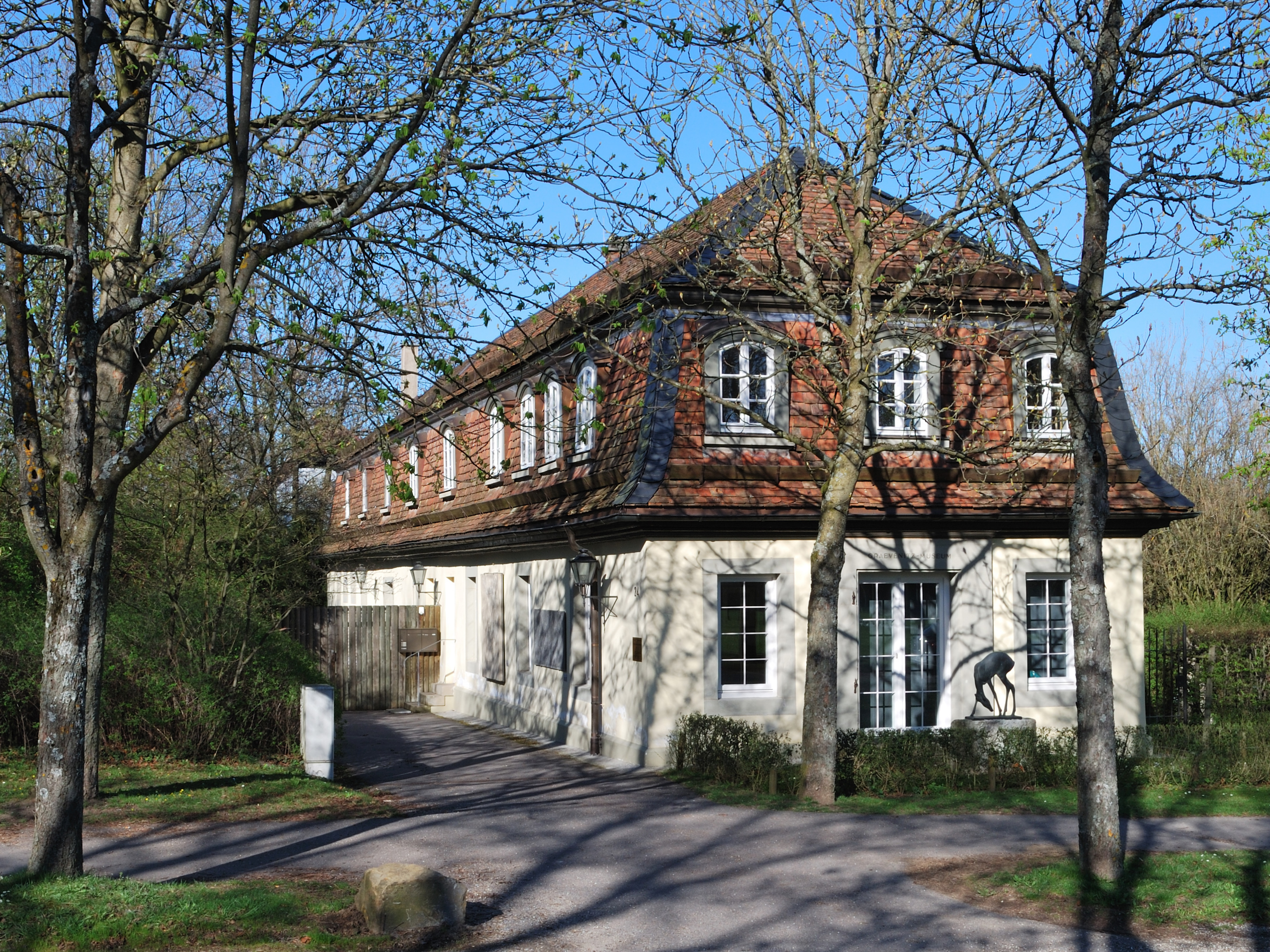 The Graevenitz-Museum in the district Stuttgart-West with works of the German artist Fritz von Graevenitz.